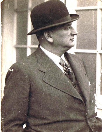 Picture of Hugo meisl